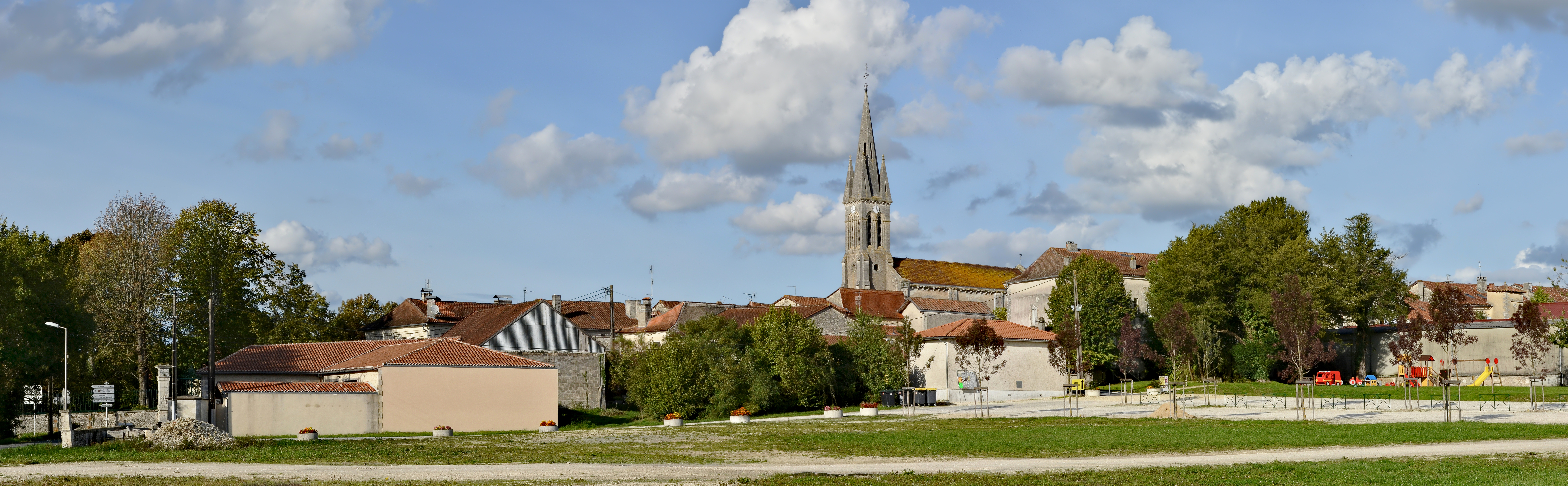 SSE partial view of Verteillac, Dordogne, France.